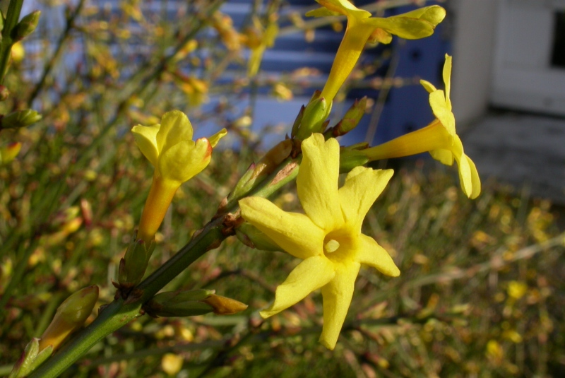 Garden